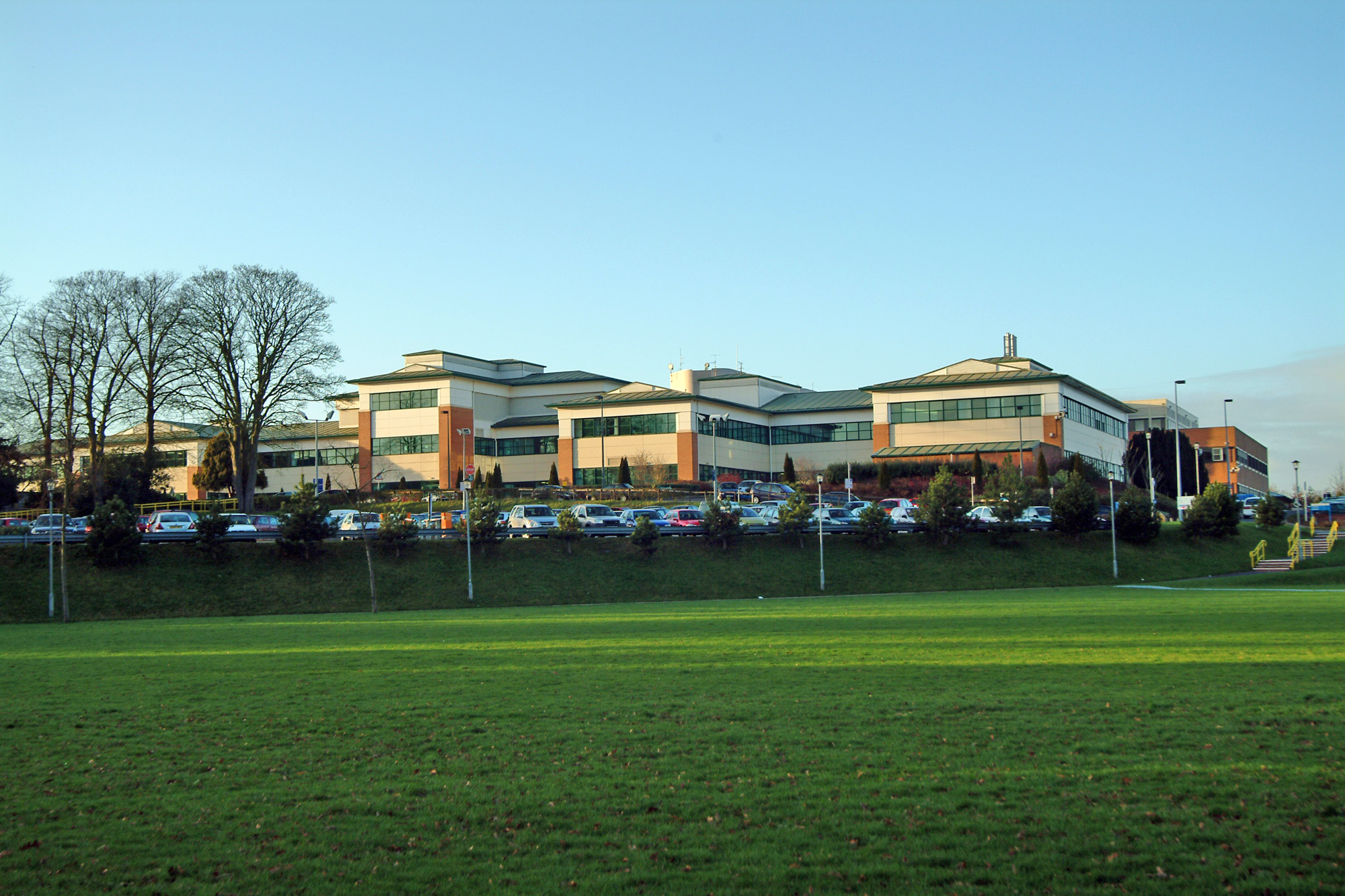 Extended view of Stafford Hospital UK. Released under the attached licence 2011 by Alistair Rose